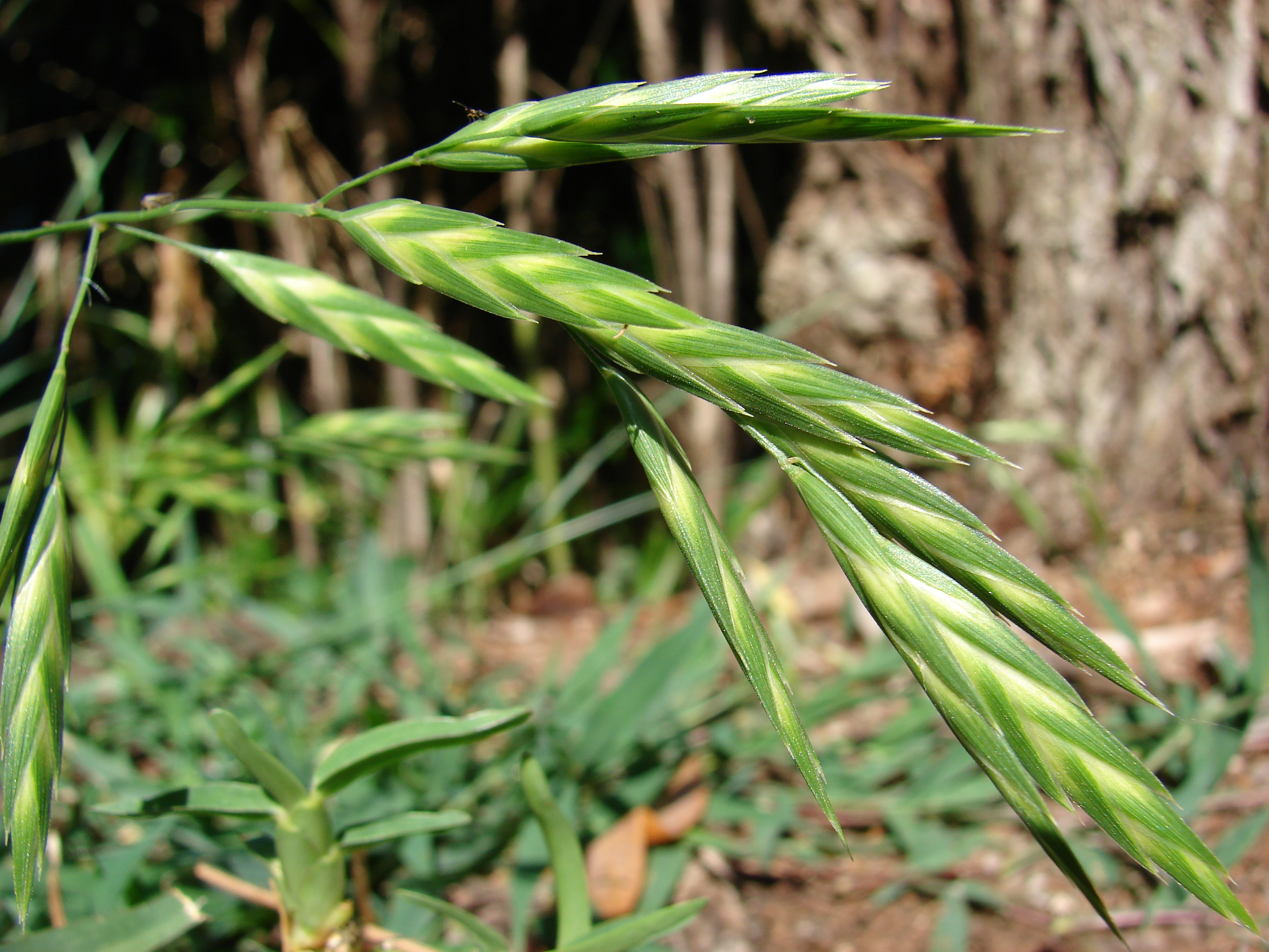 Bromus catharticus (seedheads). Location: Maui, Makawao